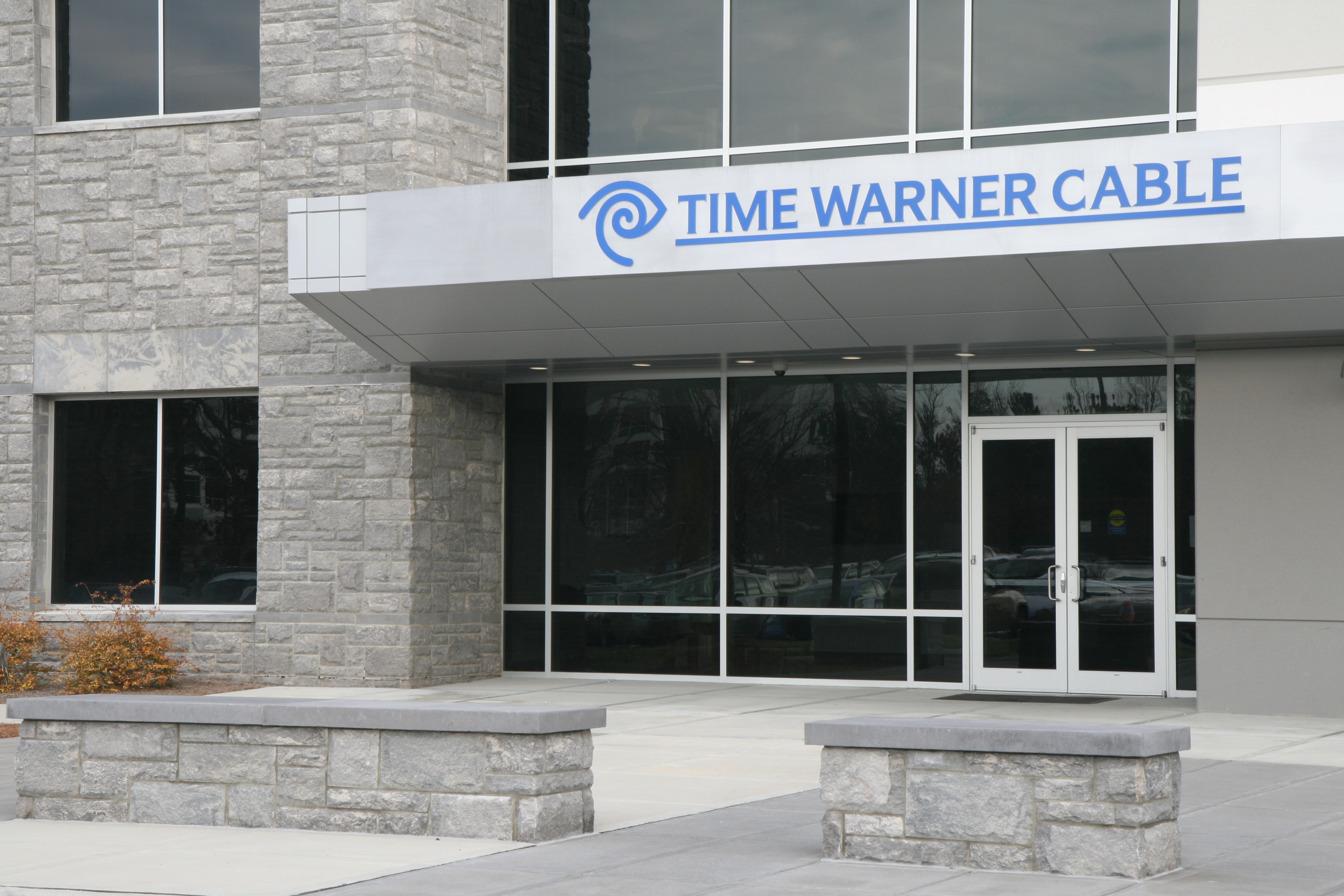 Time Warner Cable building entrance at 4200 Paramount Parkway in Morrisville, North Carolina.